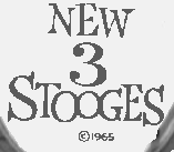 Screenshot of copyright notice that doesn't contain a claimant.